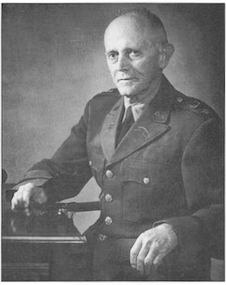 Photo of Headmaster of Carlisle Military School